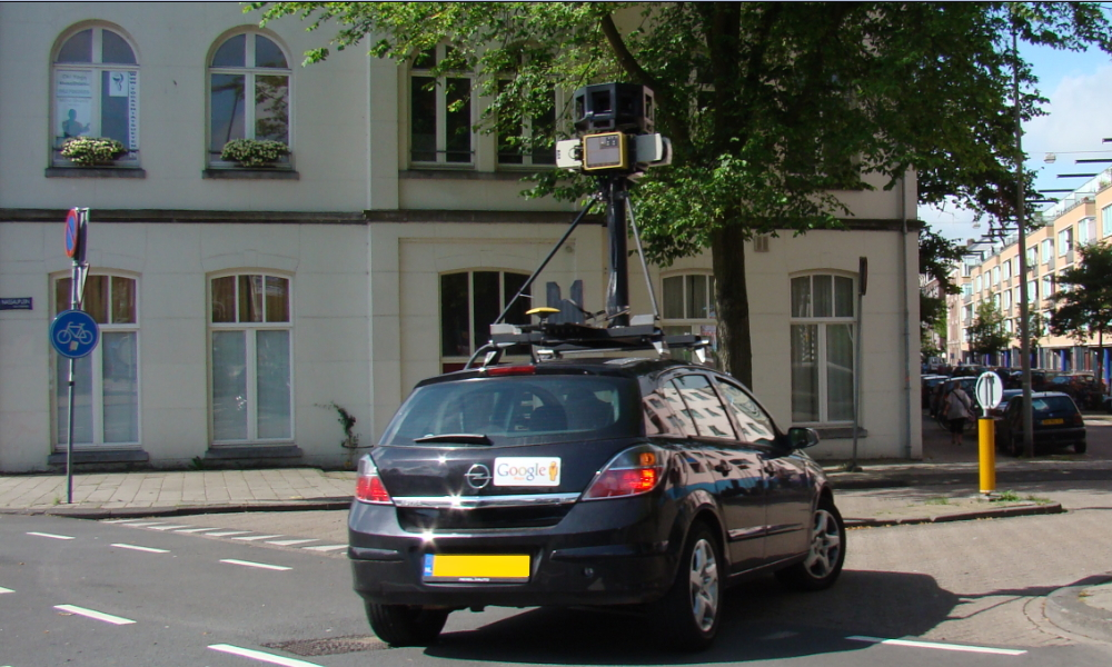 Google Streetview Car in Amsterdam, Netherlands